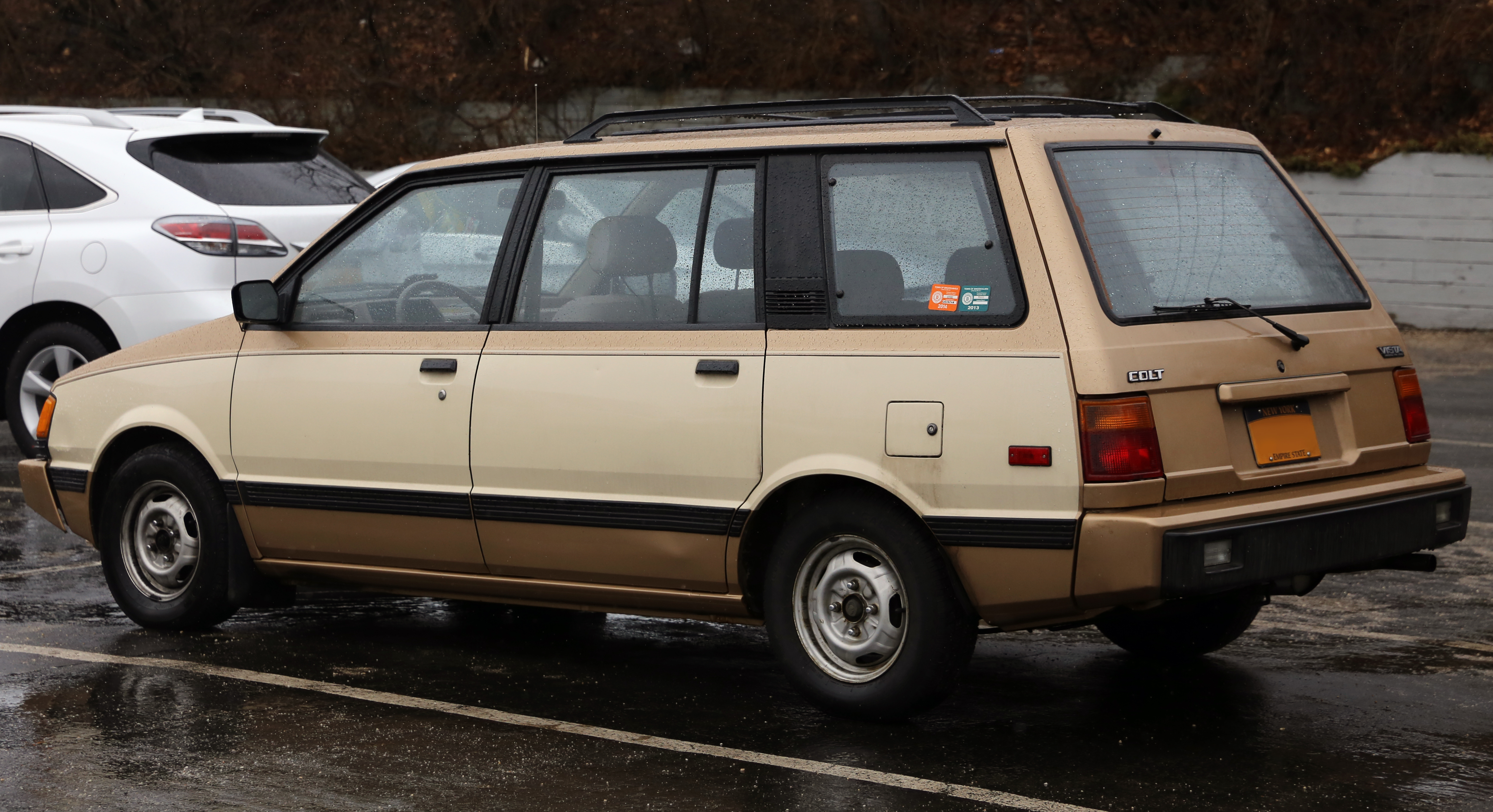 Rear left side view of a 1986 Dodge Colt Vista Wagon, fitted with the 2.0 liter 88hp (65.6kW) 4G63 engine. Built by Mitsubishi Motors Corporation in Japan.